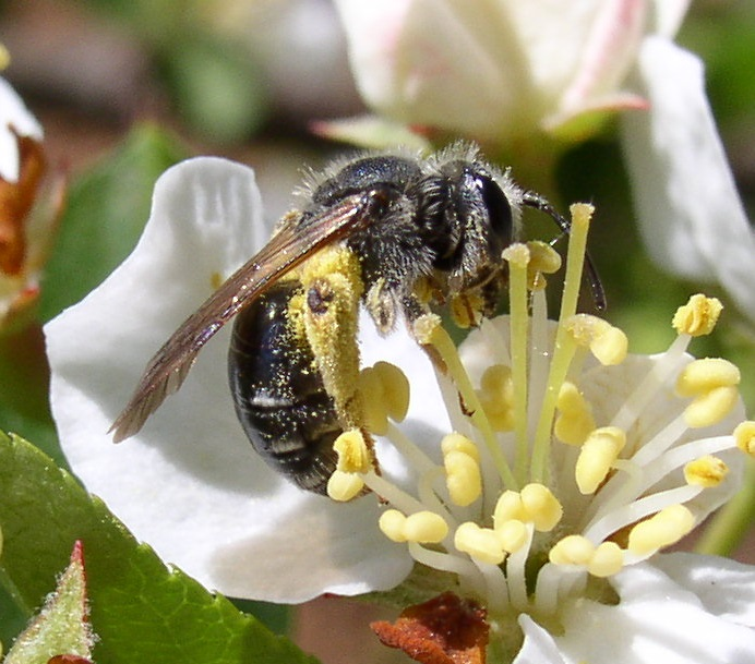 Andrena bee, female. Columbia county, New York state.